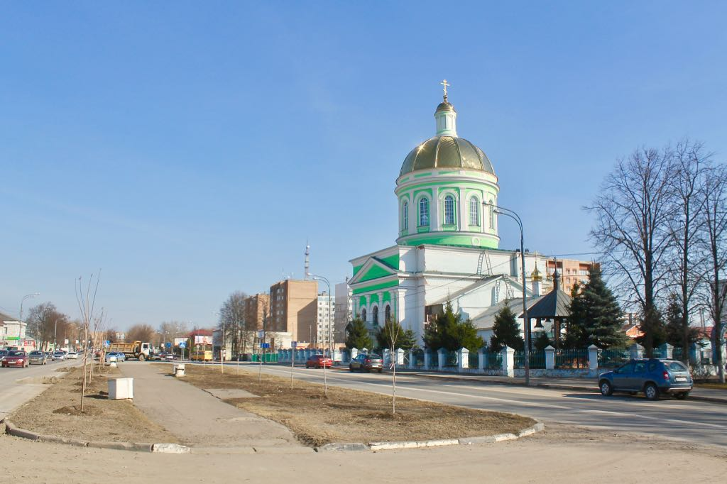 View of the church